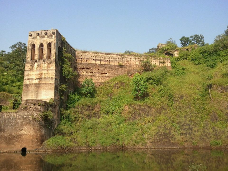 Remains of 'Raj Mahal MAKRAI '